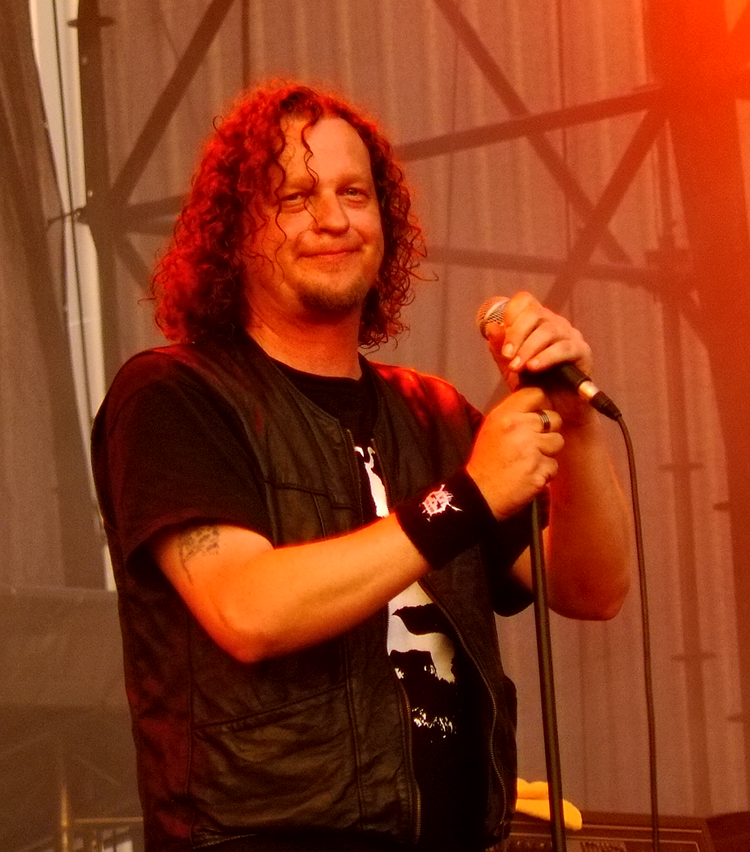 Denis Bélanger in Vizovice